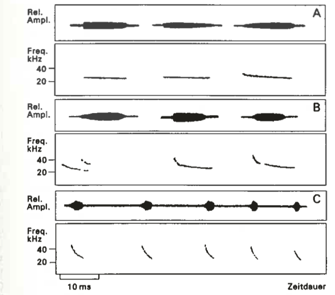 Sonograms of the calls of the lesser noctule (Nyctalus leisleri).